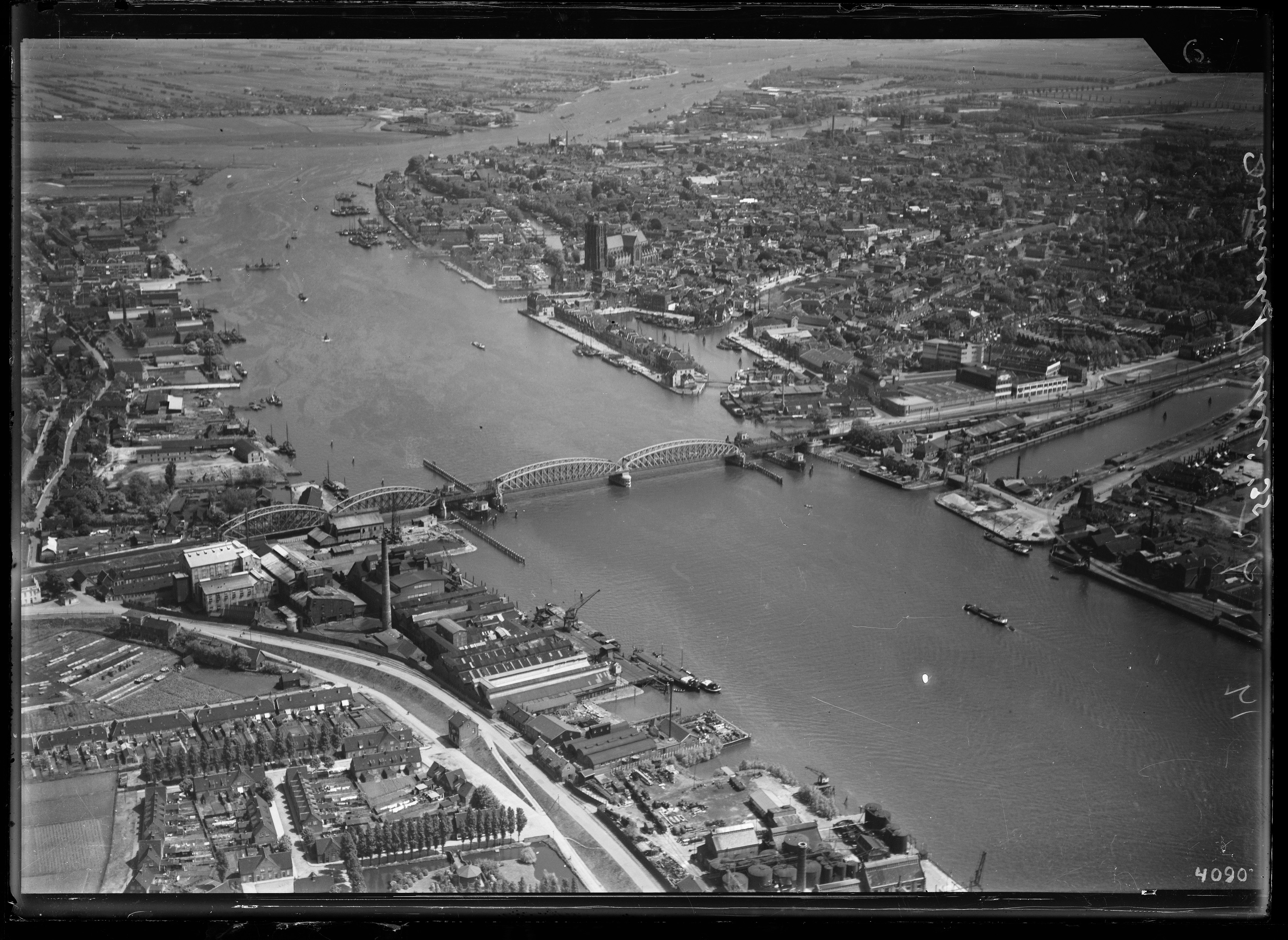 Aerial photograph of Dordrecht, The Netherlands